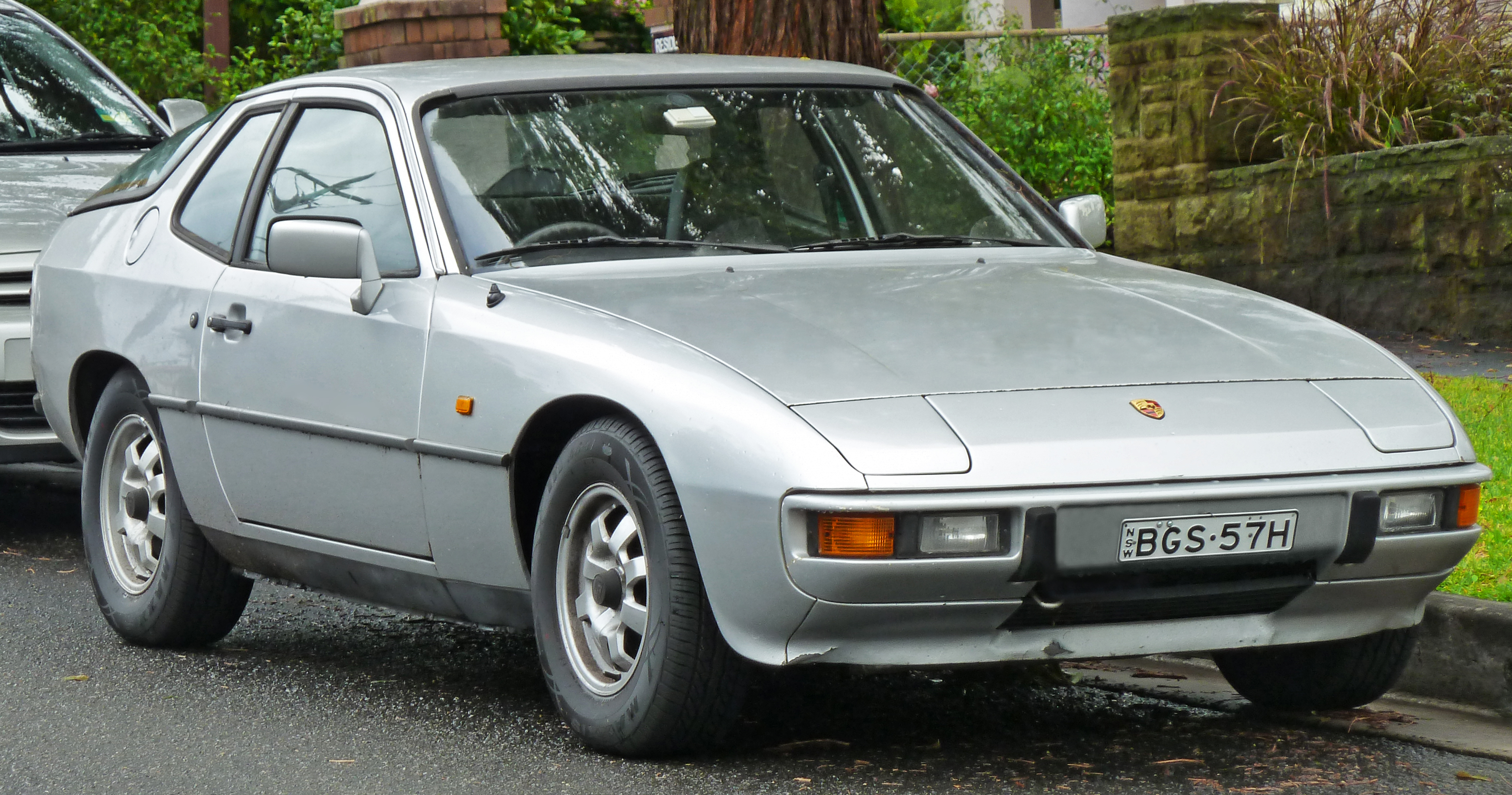 1982 Porsche 924 coupe. Photographed in Roseville, New South Wales, Australia.